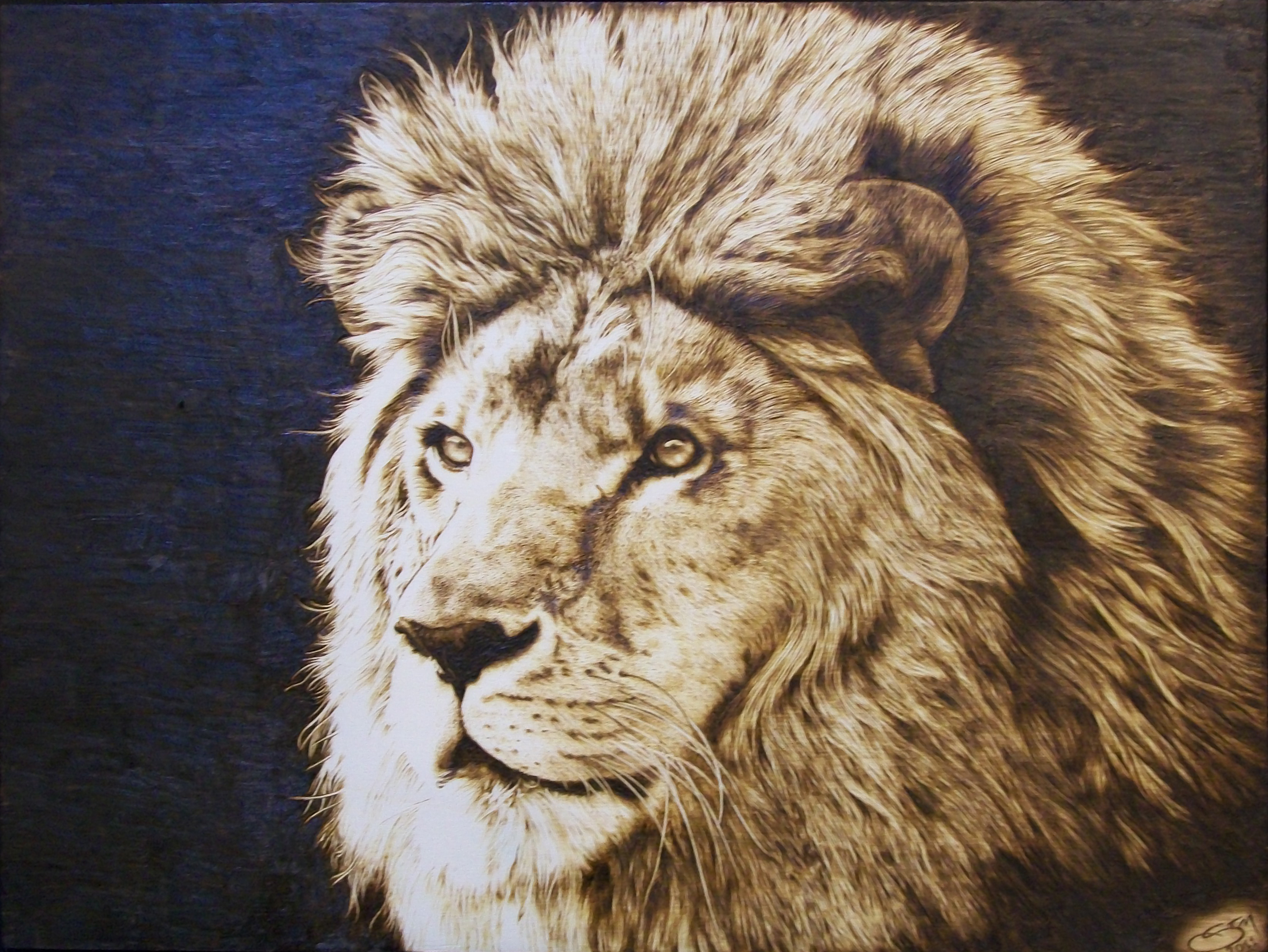 Pyrography on Poplar Wood, 15.76"x11.82"